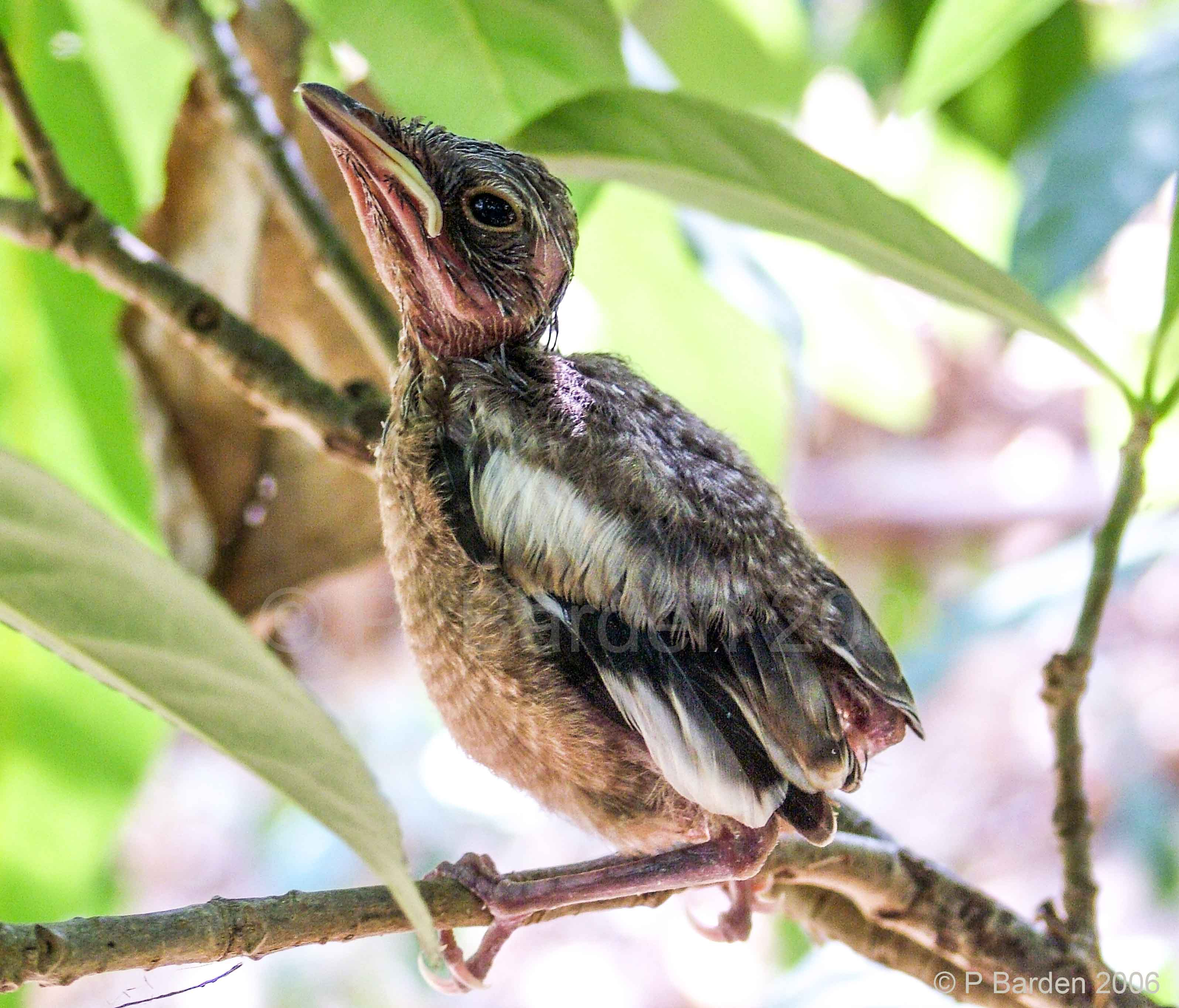 Buff-sided robin fledgling near Borroloola NT 2006